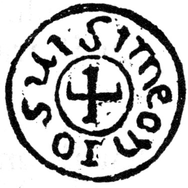 Seal of Kuroda Yoshitaka